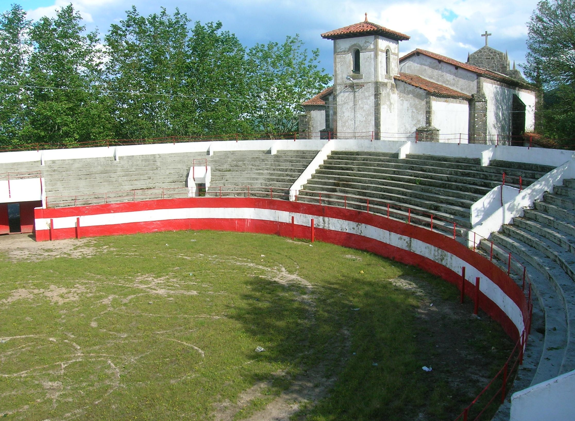 Bullring and hermit of El Suceso, Karrantza / Carranza, Biscay, Spain.